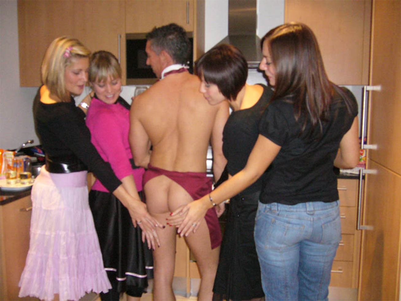 Naked butler from serving at hen-party in London